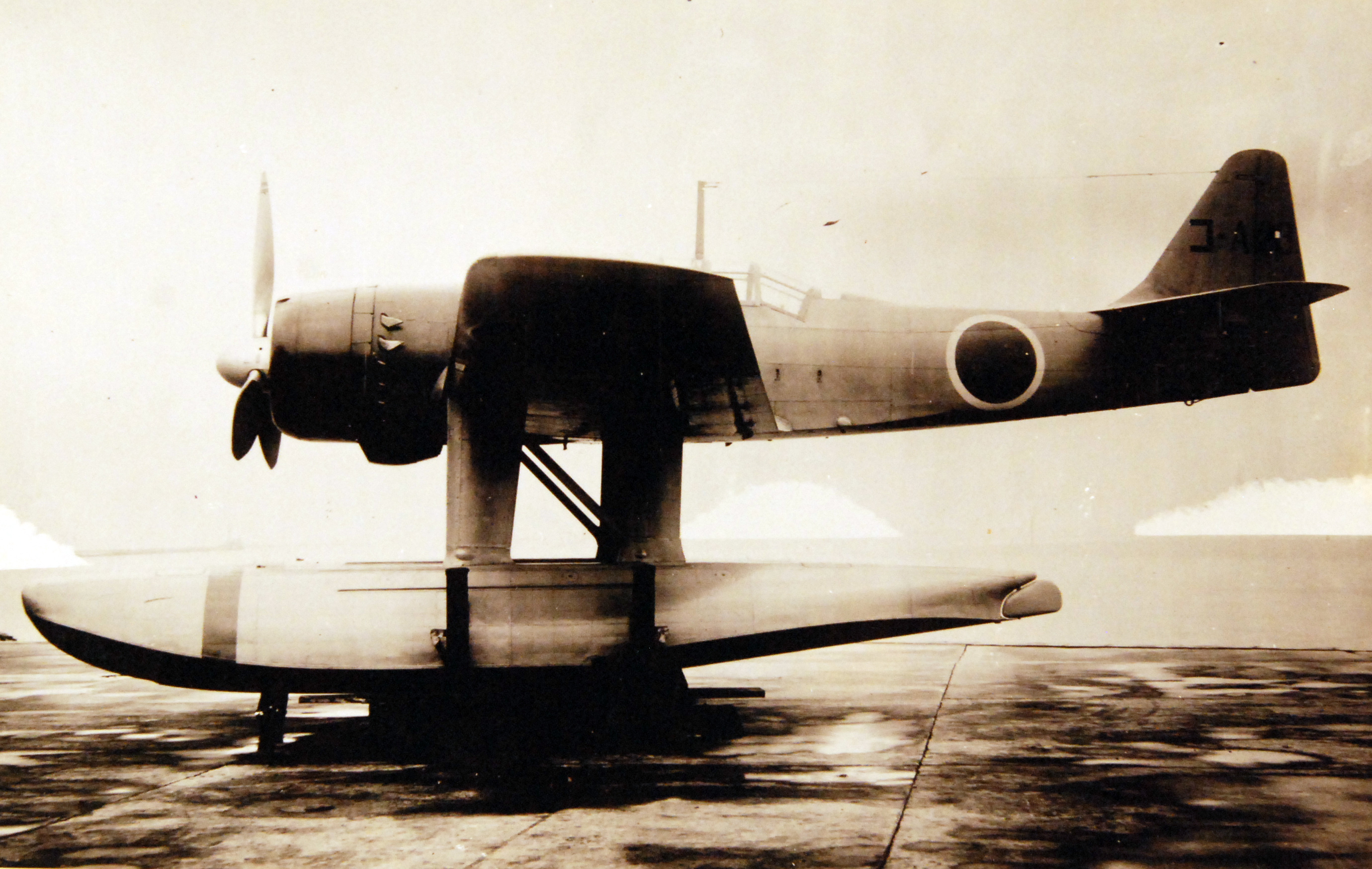 80-G-216867: Japanese long-range reconnaissance seaplane Aichi E13A “Jake” captured on Kwajalein in the Marshall Islands. Photograph received March 1944. Official U.S. Navy Photograph, now in the collections of the National Archives. (2017/08/01).